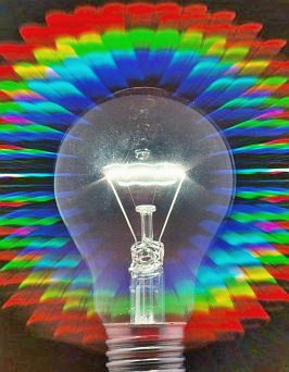 An incandescent light-bulb viewed through a transmissive diffraction grating. ( Cokin filter #042 )